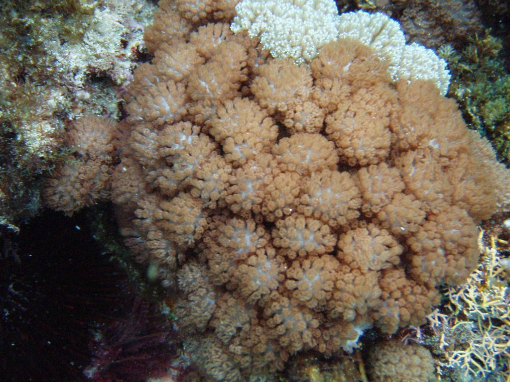 Live Coral at Ned's Beach, Lord Howe Island